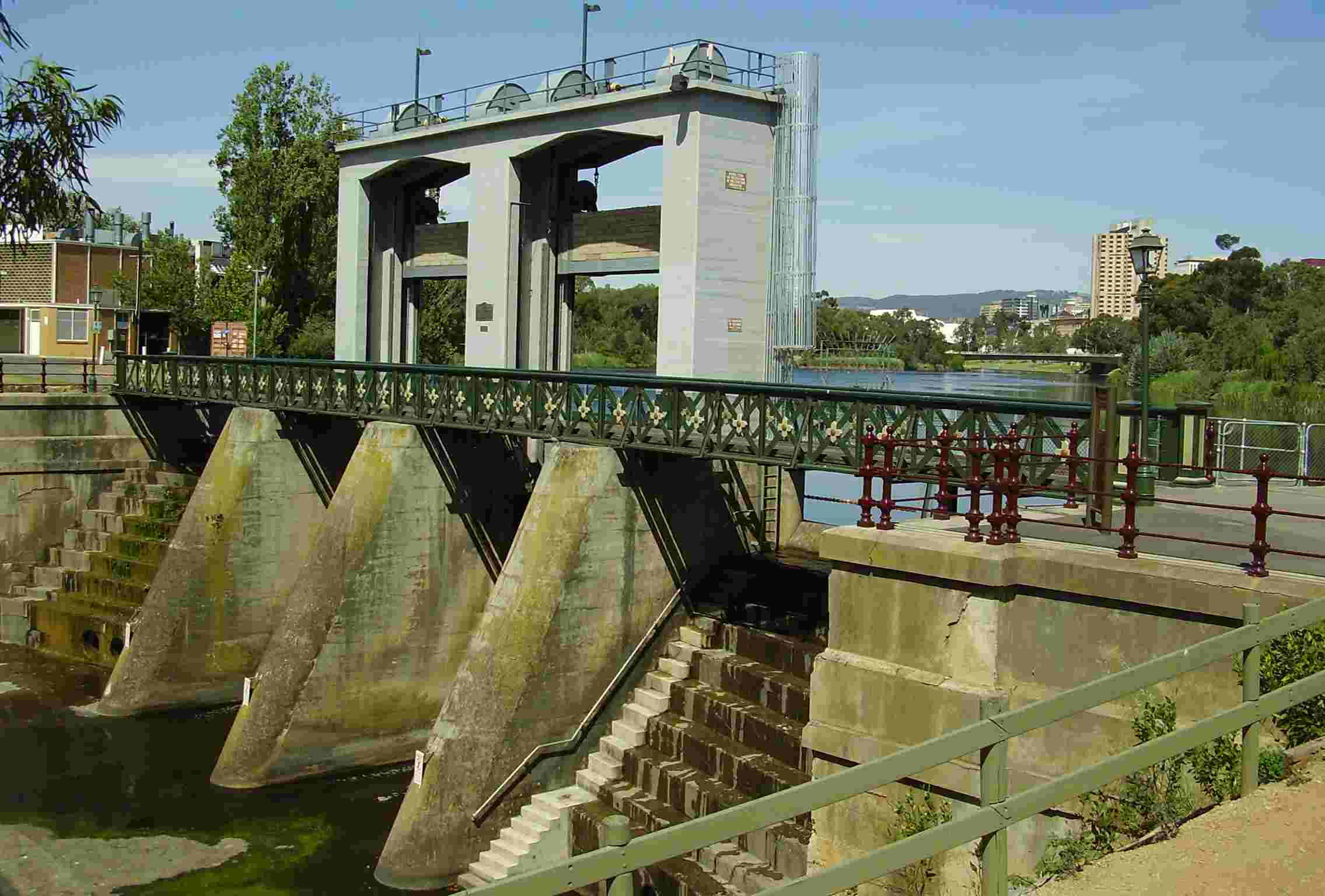 Photo by User:Peripitus of the wier on the River Torrens in Adelaide South Australia Originally uploaded to wikipedia then re-uploaded here